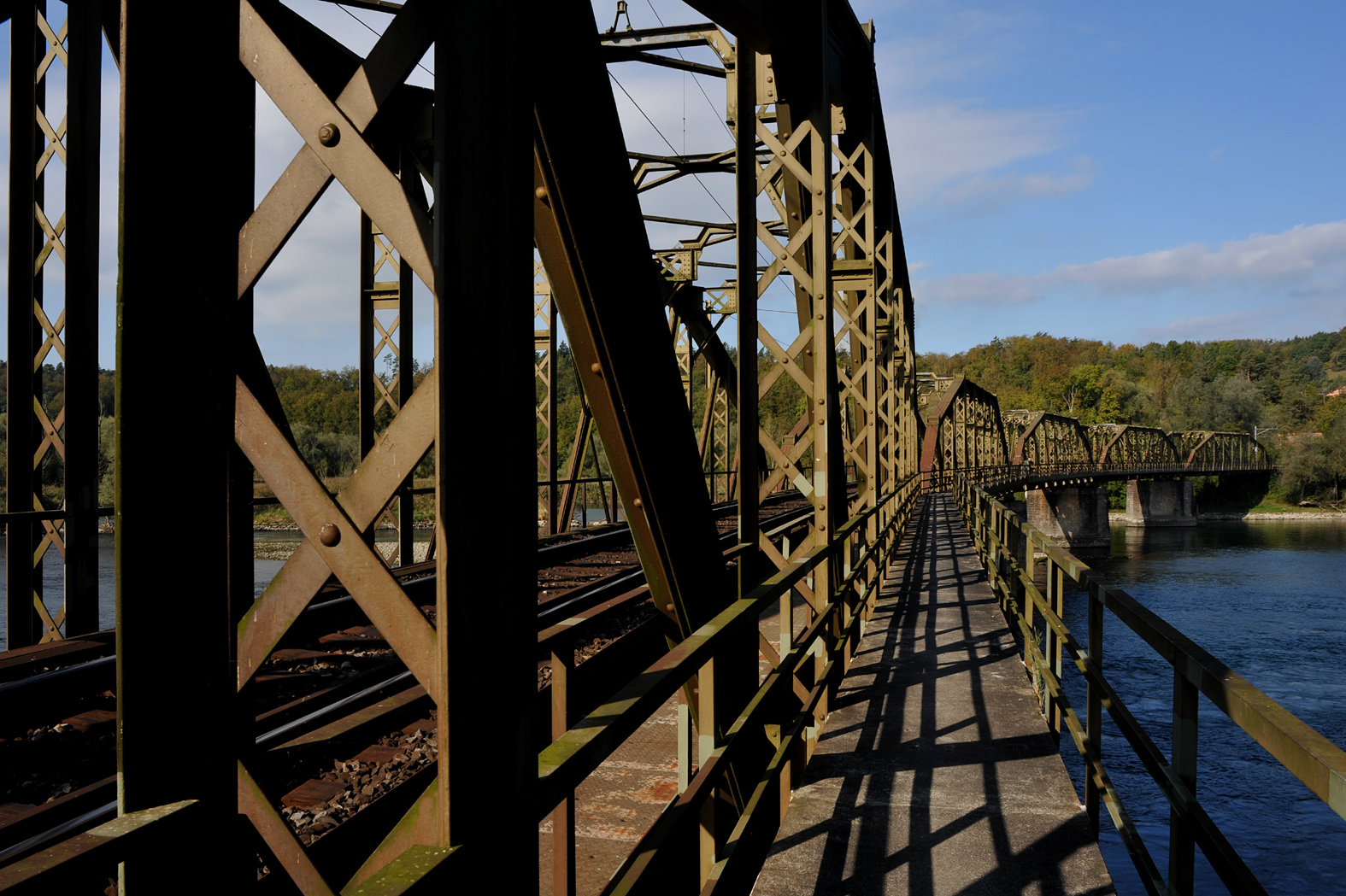 SBB bridge crossing the Aare between Koblenz and Felsenau; Aargau, Switzerland.